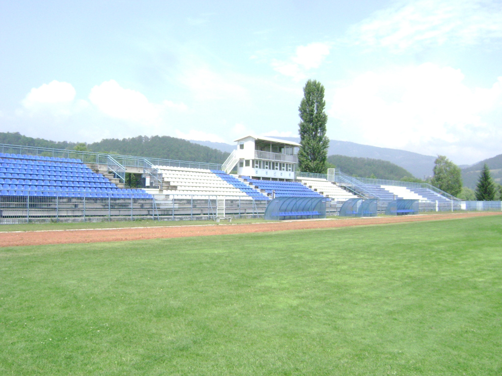 Mladost Stadium, Lučani, Serbia.Српски (ћирилица): Стадион Младост, Лучани, Србија.